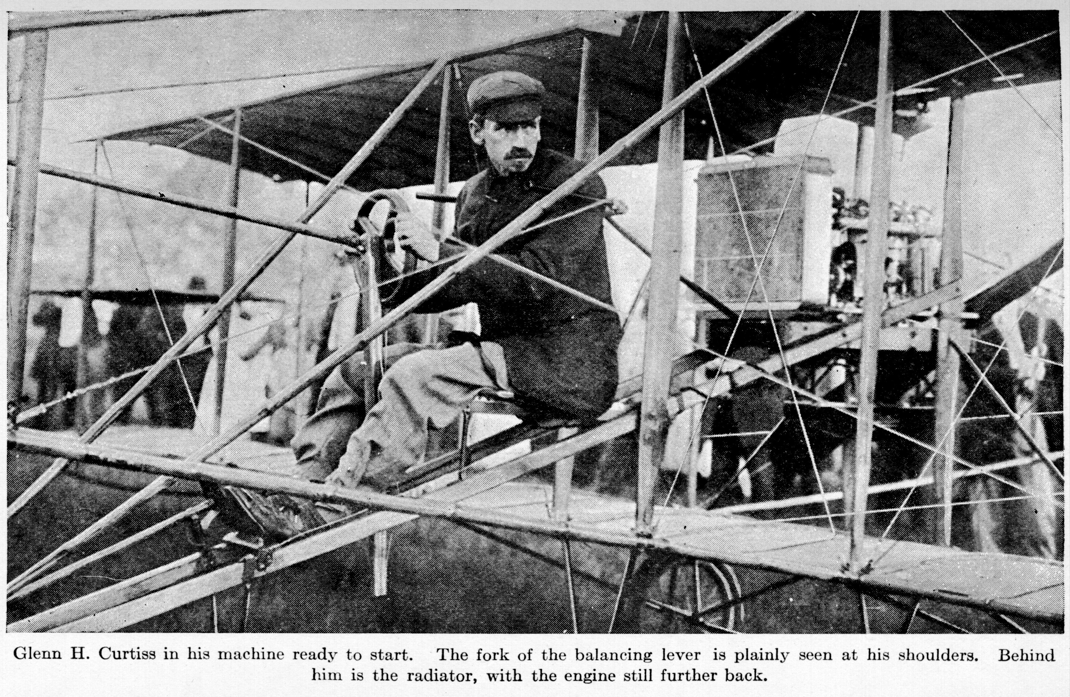 Rheims Air Show August 1909